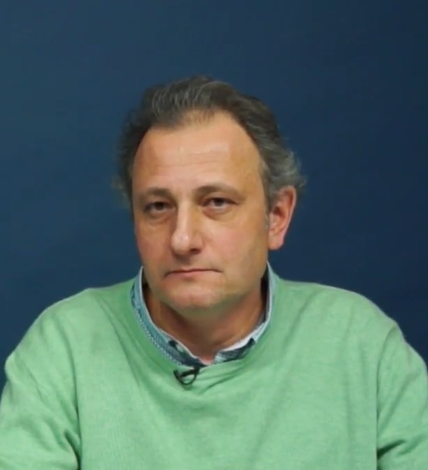 Russian journalist, lawyer, economist and political scientist Andrey Kolesnikov at the "Navalny LIVE" YouTube channel's program Gde Den'gi (Where Is The Money)